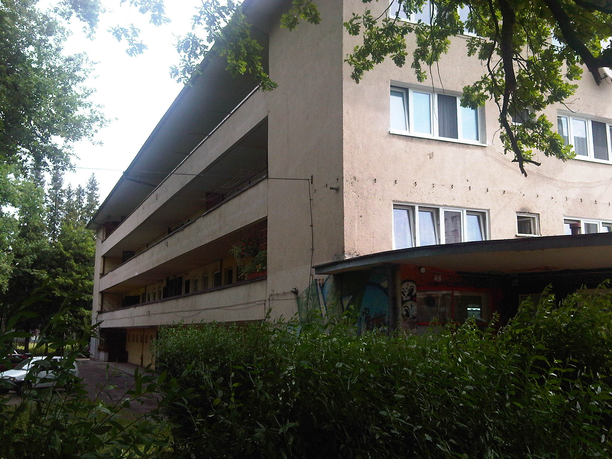 Wrocław - Paul Heim, Laubenganghaus